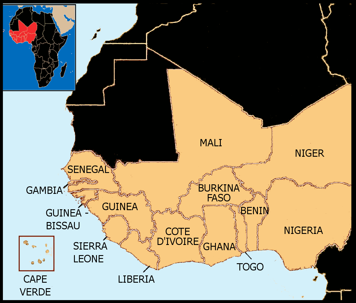 Map of West Africa, where Energy for Opportunity Works